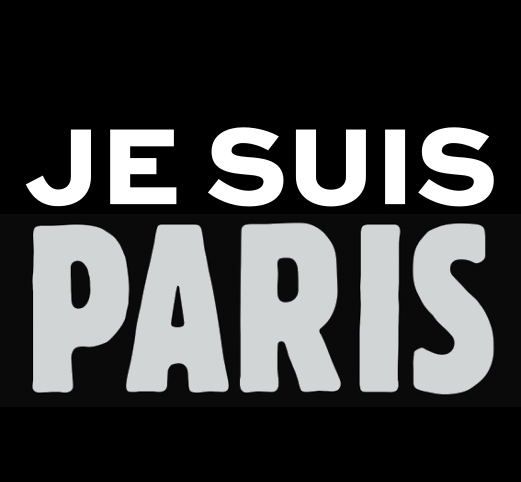 Derivative work of File:Je suis Charlie.jpg by Joachim Roncin & Charlie Hebdo; idea by common sense.